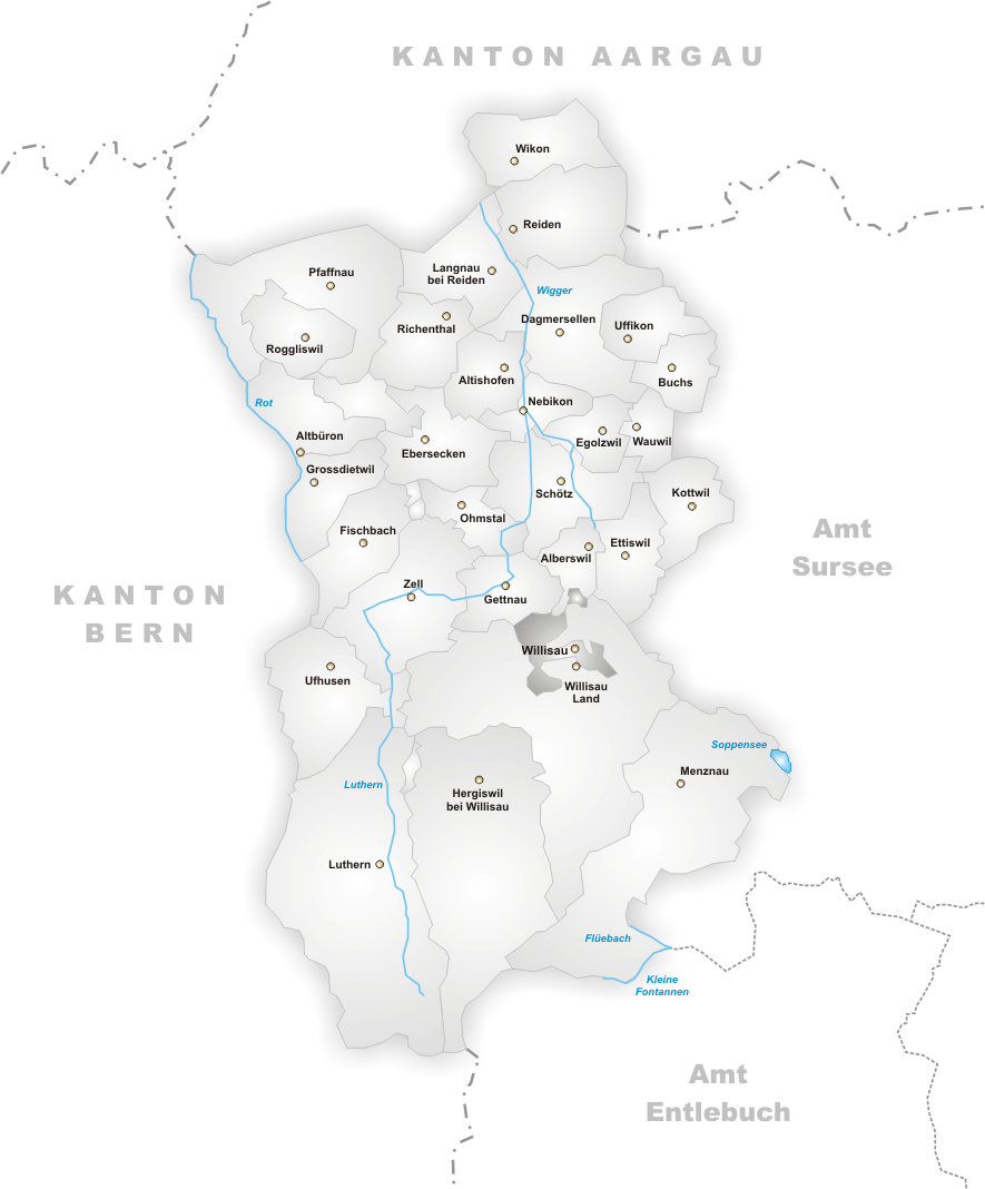 Municipality Willisau Stadt